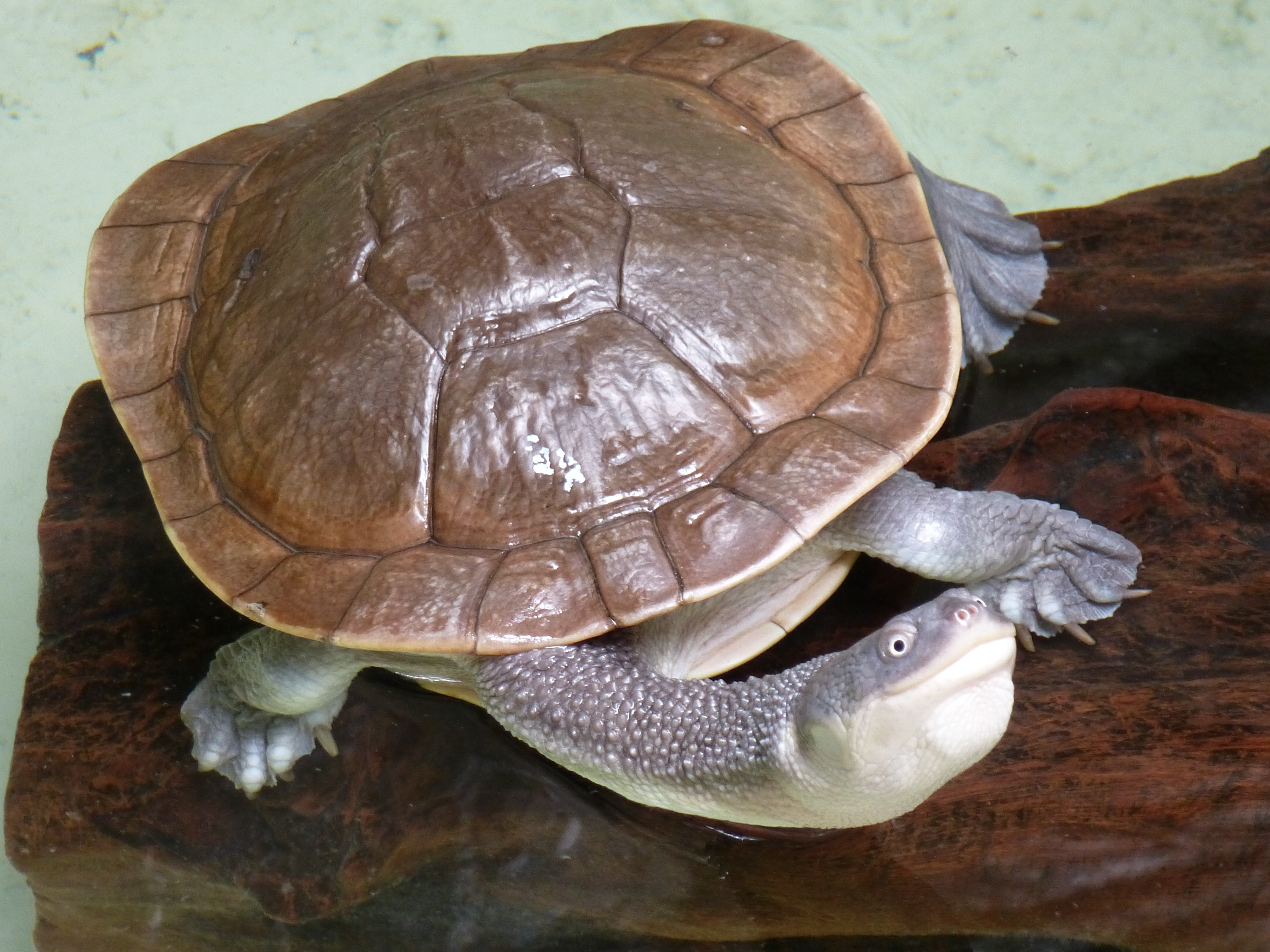 Chelodina mccordi out of water. Lisbon Zoo. Portugal